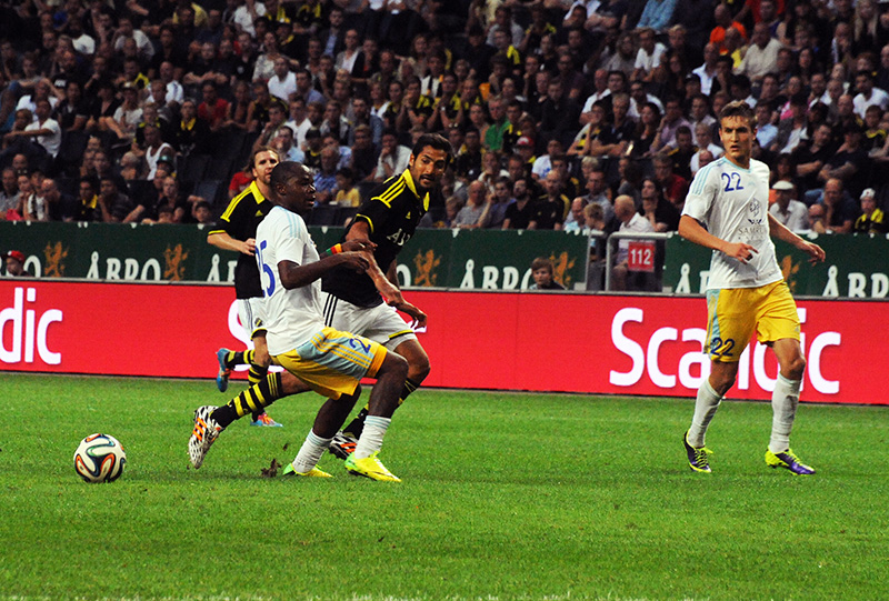 During AIK - FC Astana (2014).